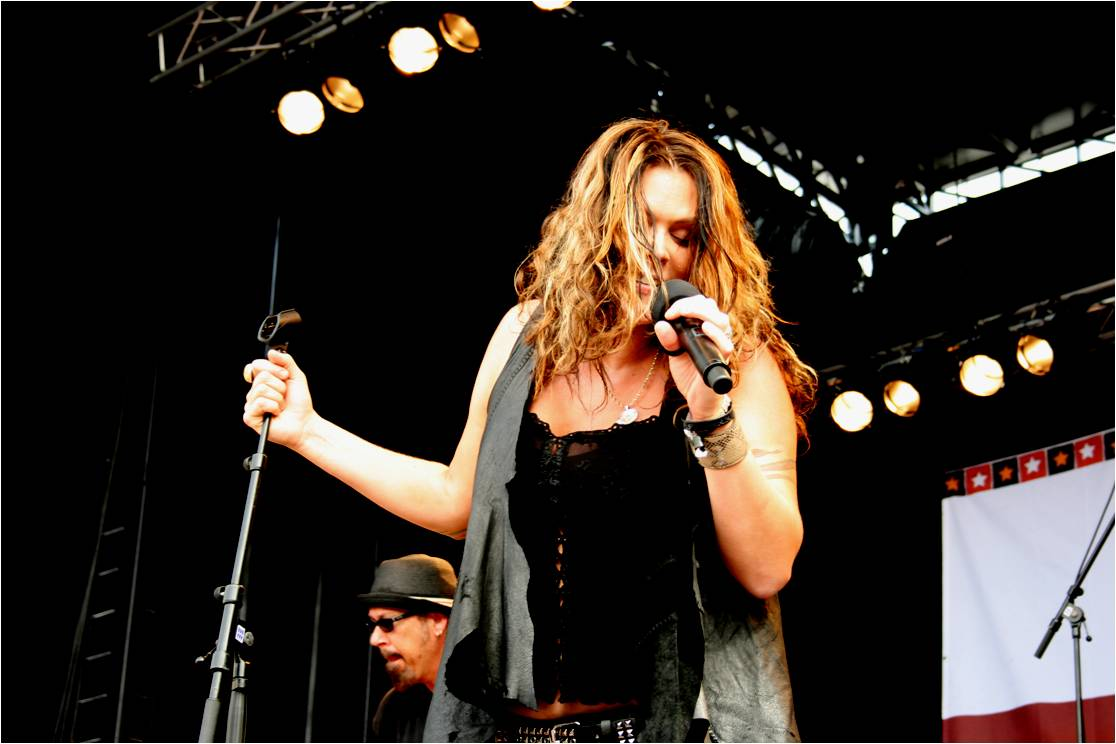 Beth Hart at Notodden Blues Festival 2009